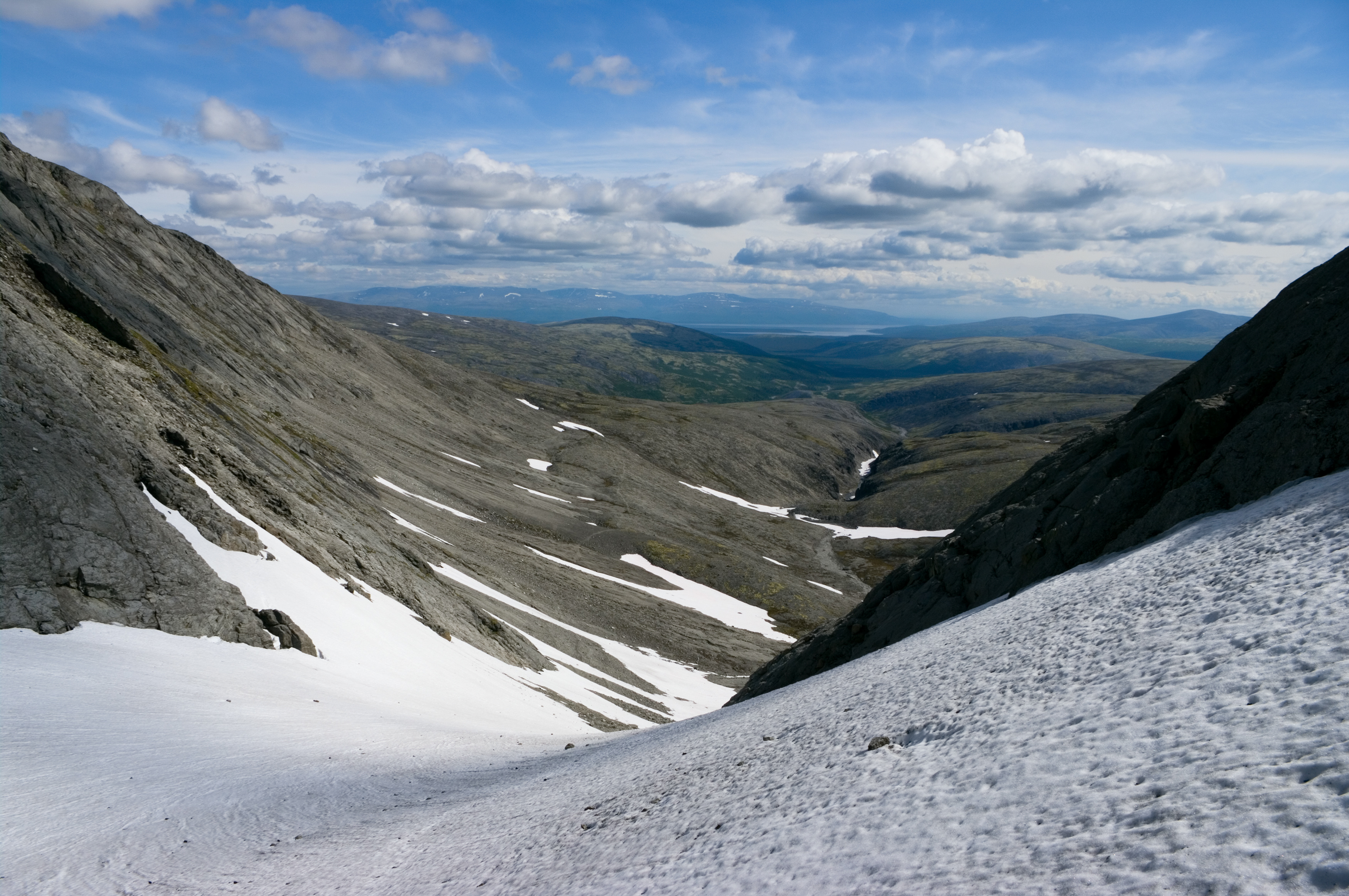 View from North Rischorr pass in Khibiny mountains